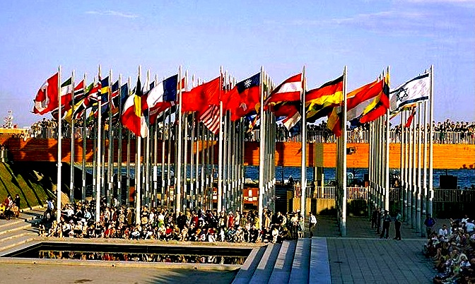 Nation's Place at Universal Exposition of 1967, Montreal, Quebec, Canada